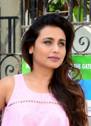 Rani Mukerji in 2015